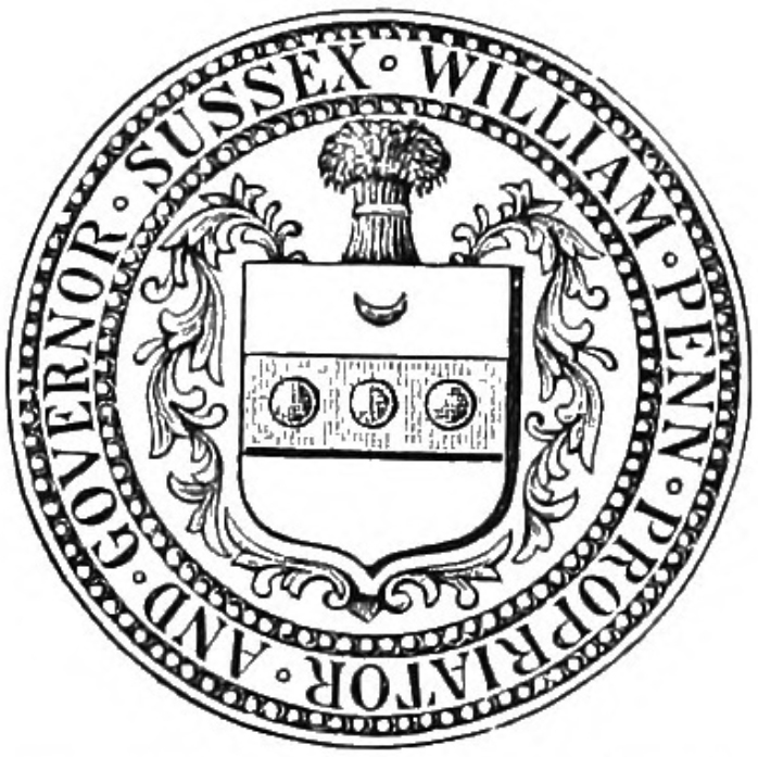 "William Penn Propriator and Governor Sussex" Seal of Sussex County, Delaware, 1683. From History of Delaware, 1609-1888, Vol. 1, Ch. IX, Delaware Under William Penn, by John Thomas Scharf, Published by L. J. Richards & Co., 1888, Philadelphia